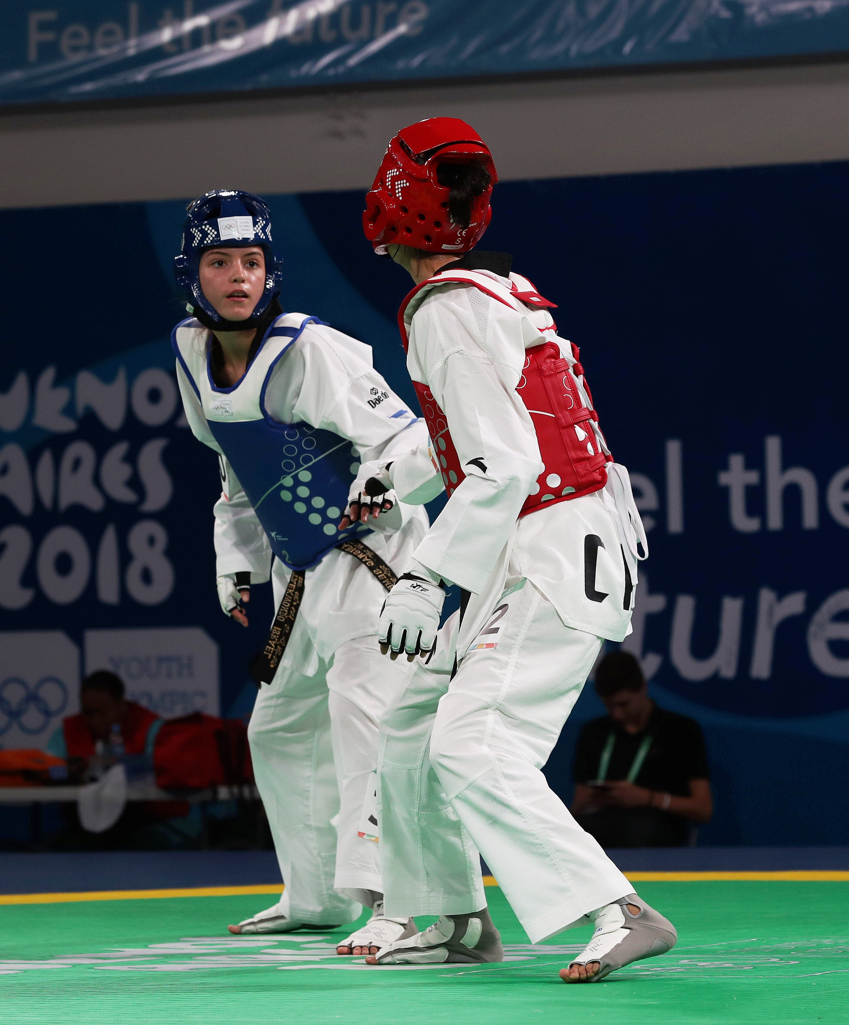 Quarterfinal in Taekwondo of the boys 49 kg at the 2018 Summer Youth Olympics in Buenos Aires on 8 October 2018: China vs. Israel.